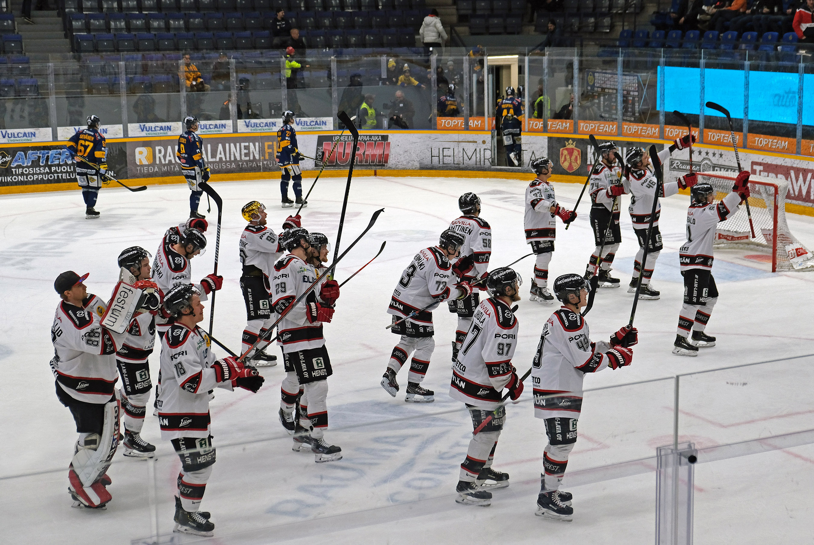 Lukko-Ässät 30-11-19